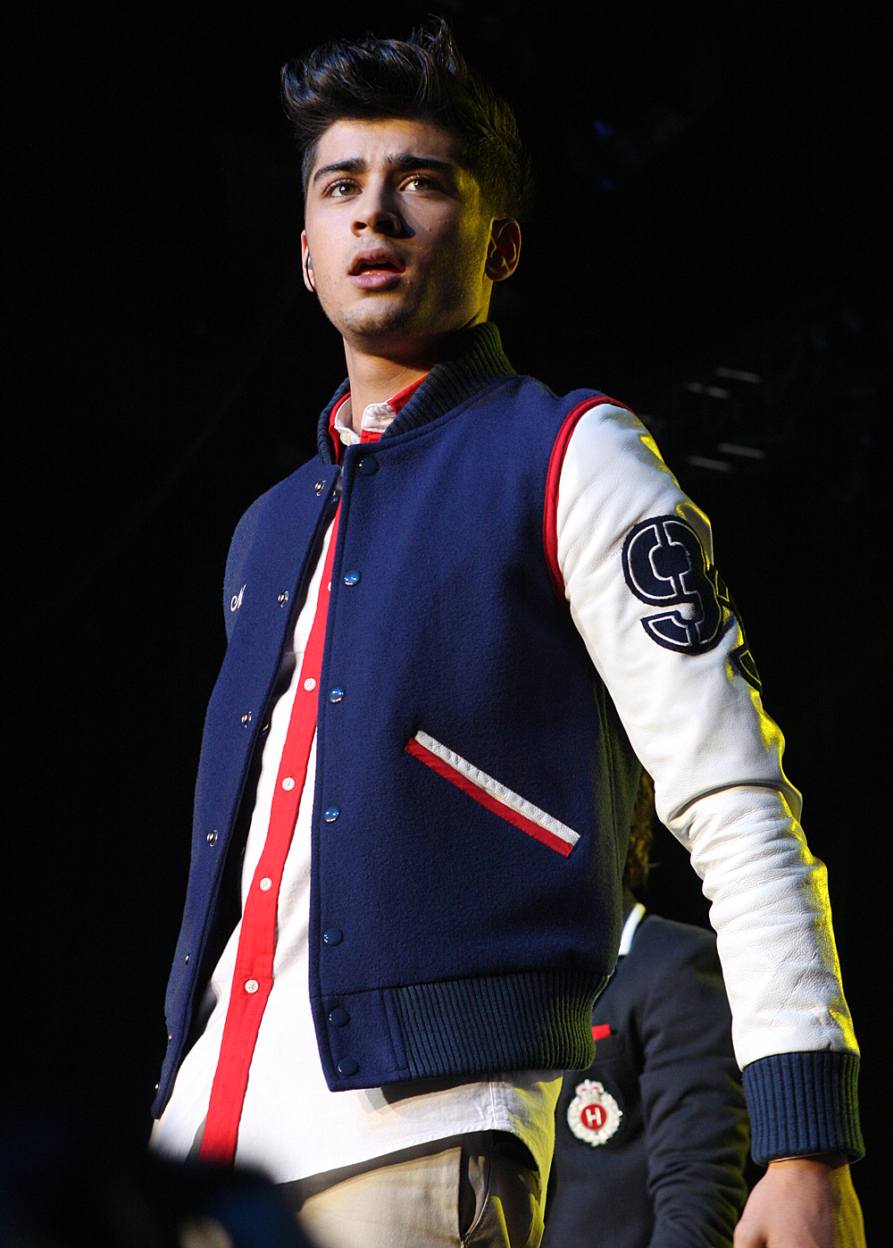 Zayn Malik at the One Direction performs at Hordern Pavilion, Moore Park, Sydney, Australia 2012.